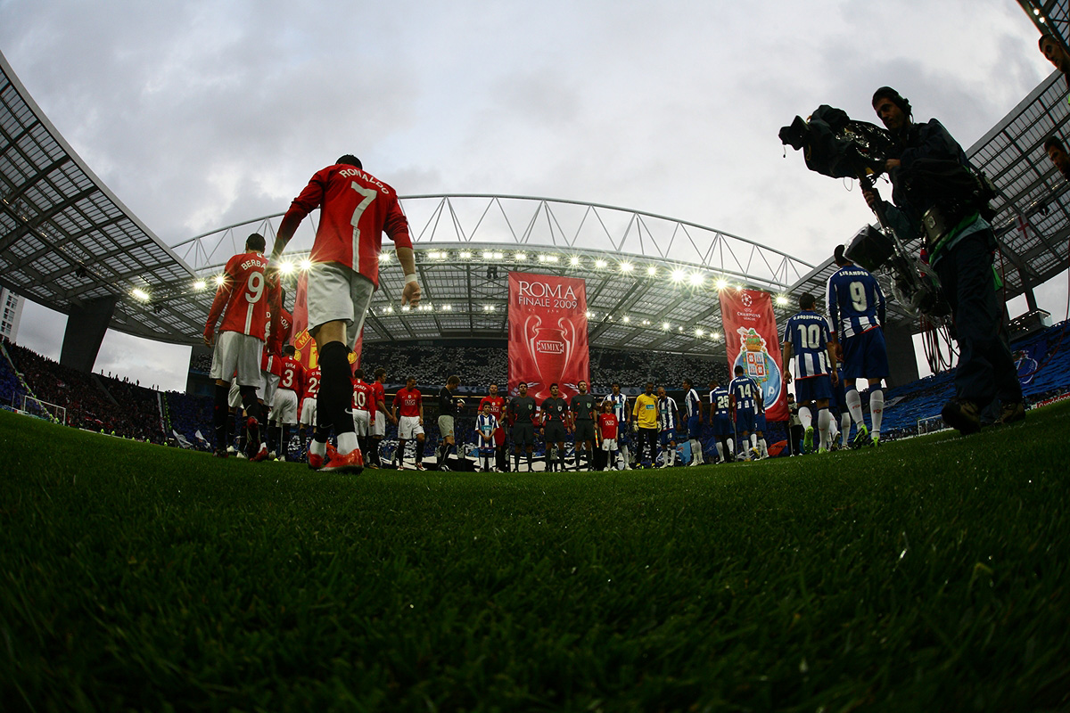 Football : Players on the pitch before the UEFA Champions League Quarter Final second leg match between FC Porto and Manchester United at the Estadio do Dragao on April 15, 2009 in Porto, Portugal. (Photo by Tsutomu Takasu)